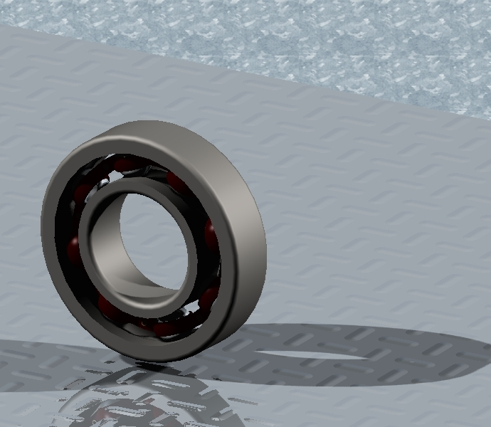 Assembly of a rigid ball-bearing. Image rendered with computer graphics using SolidWorks. (author: ruizo)